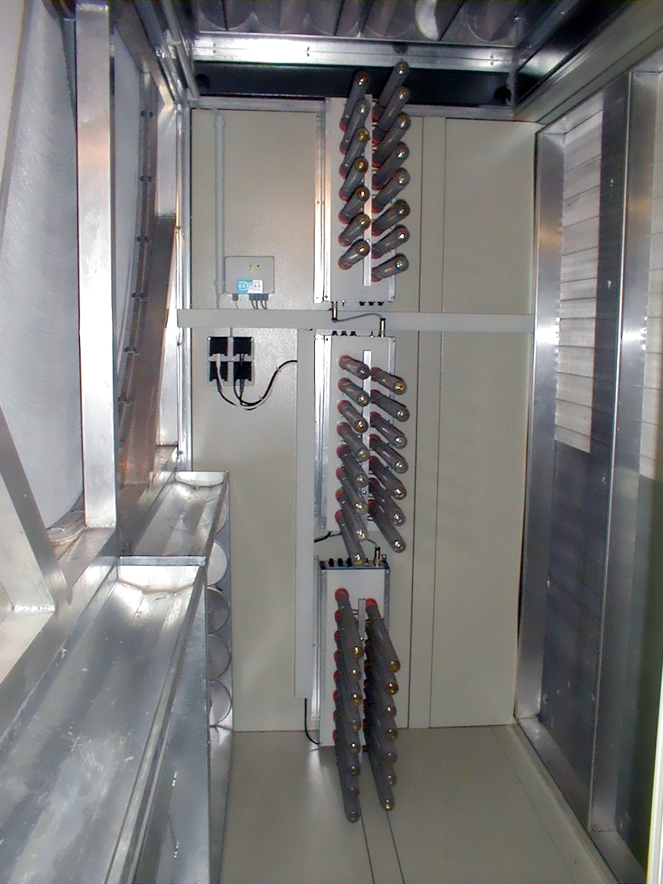 Circulating air chamber with Bentax ionization devices.